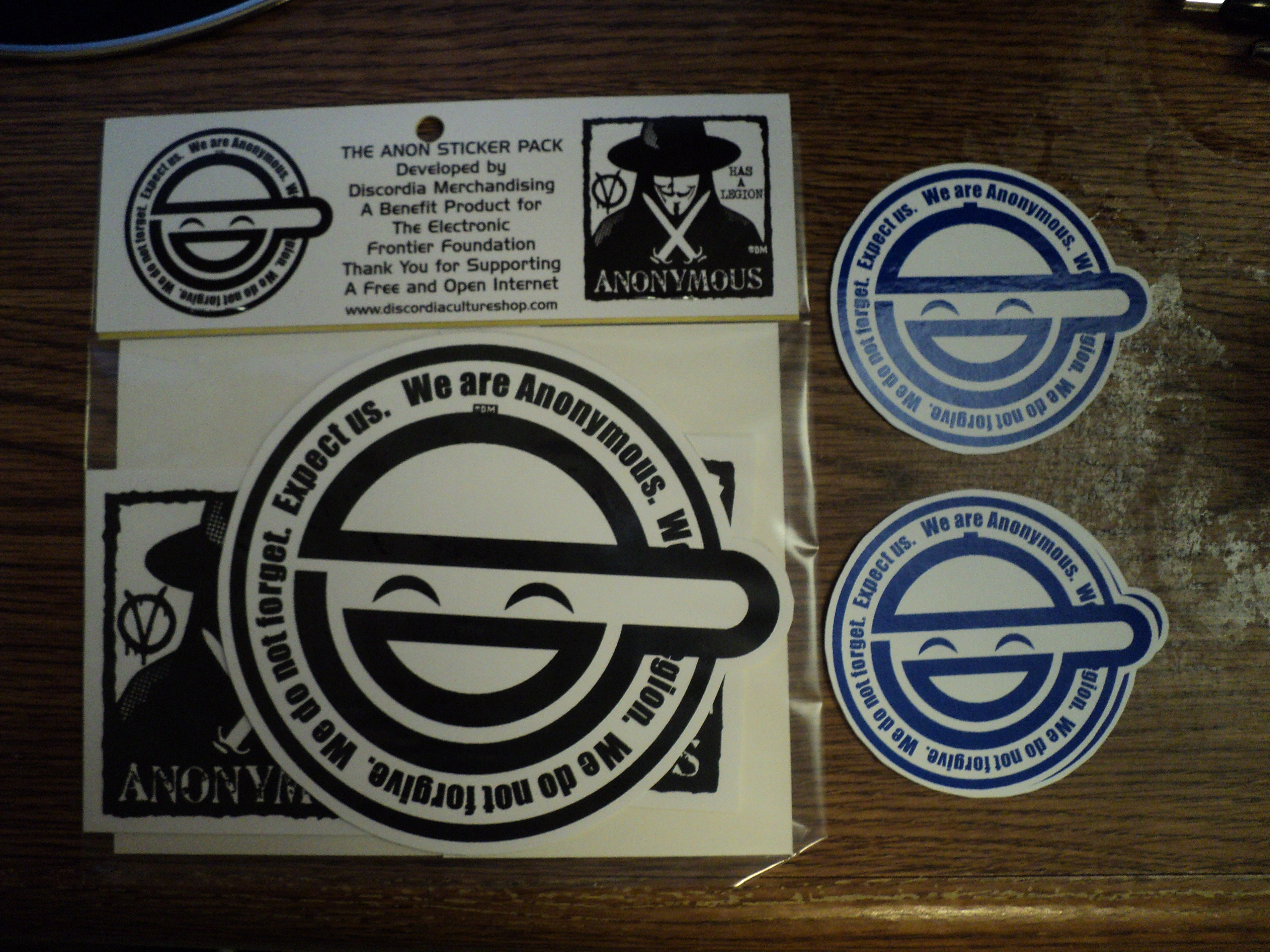 Stickers in support of the Electronic Frontier Foundation which co-opt the Laughing Man logo from the anime Ghost in the Shell: Stand Alone Complex and the motto of the hacktivist collective Anonymous.